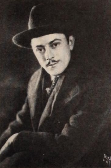 Actor Sid Smith, on page 41 of the April 2, 1921 Exhibitors Herald.